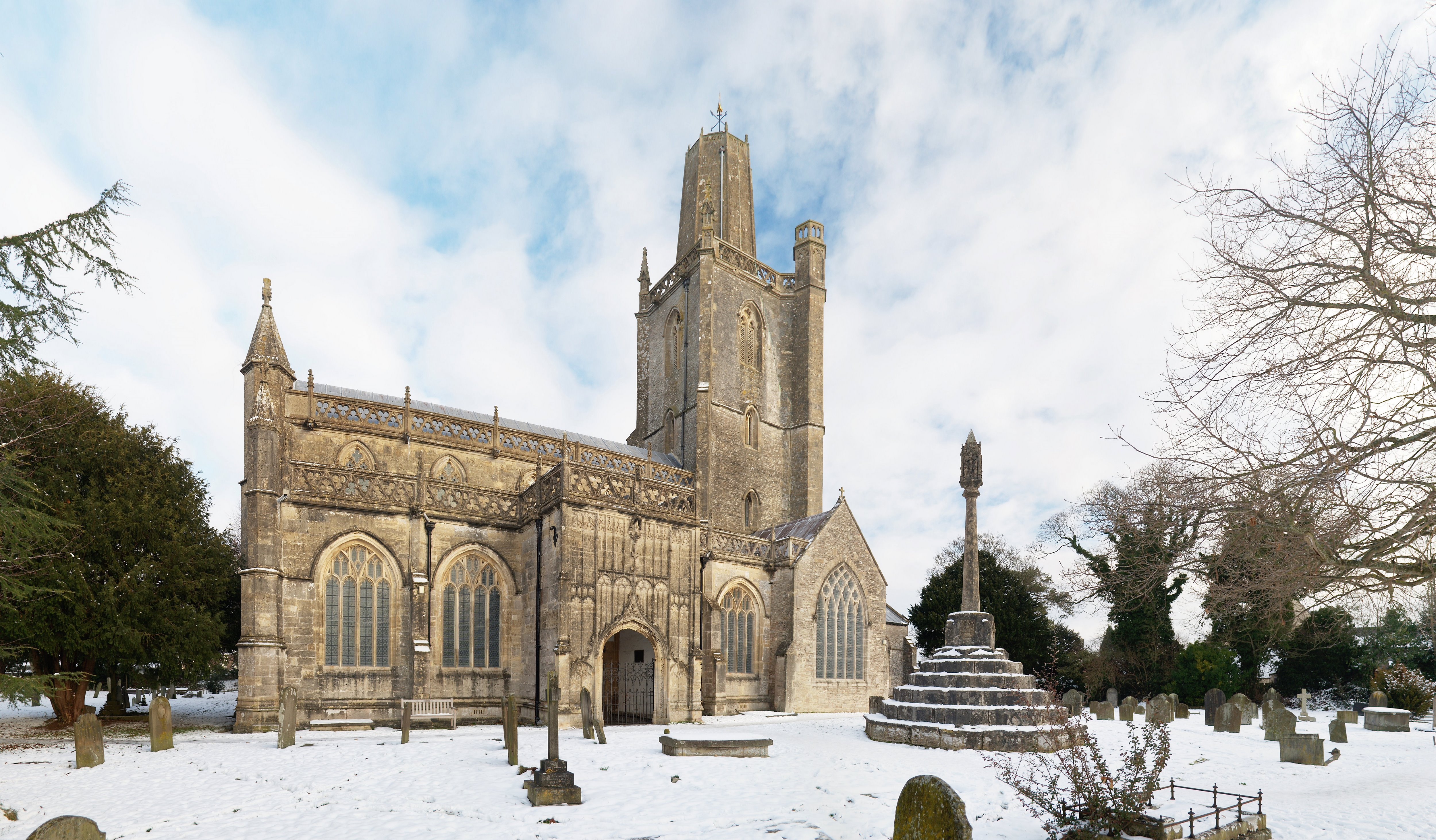 Wide view from the southwest of the parish church of St Mary the Virgin, Yatton, Somerset and (right) its churchyard cross, in snow